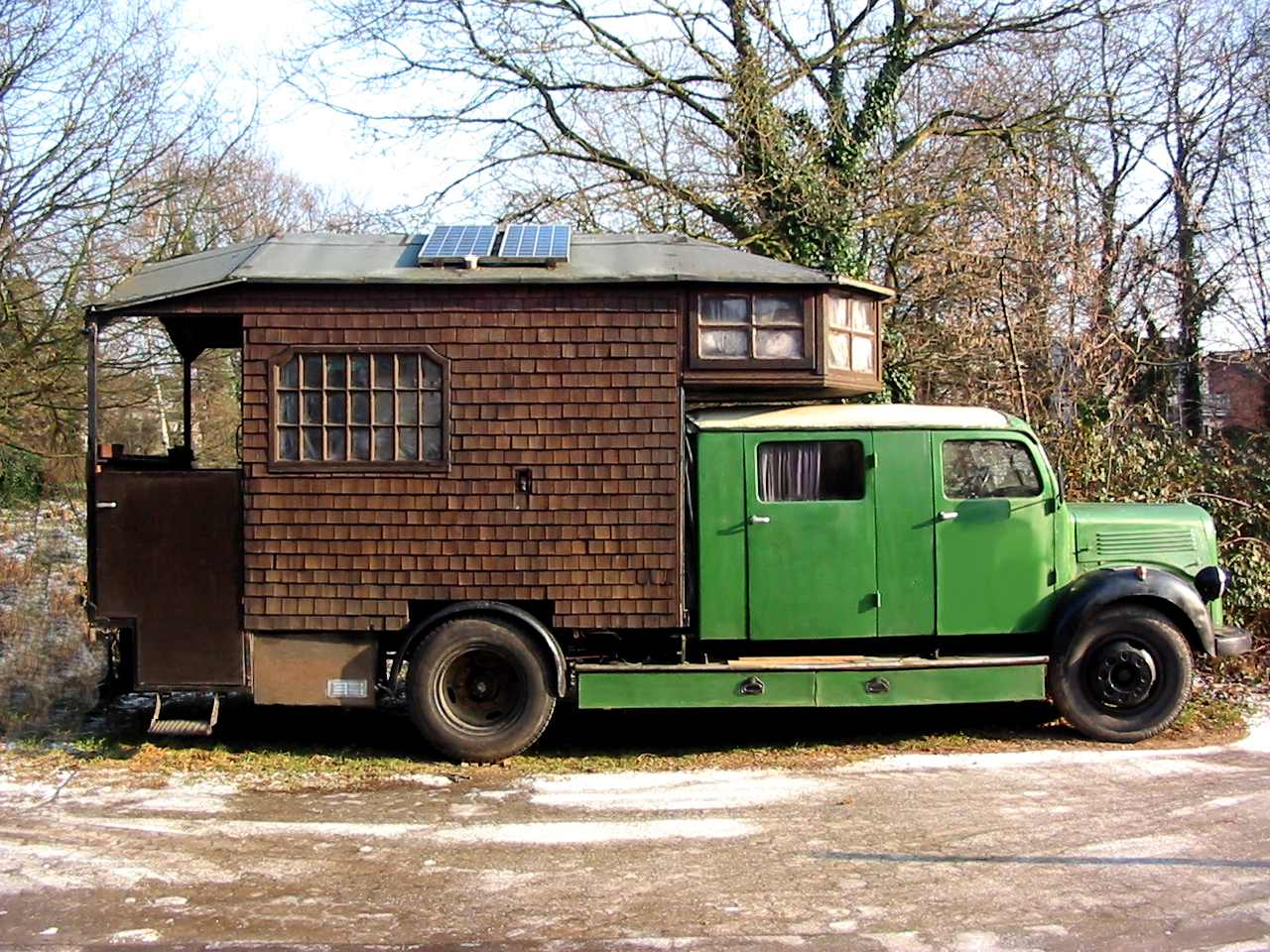 "Rolling Home", built in Germany 1987 from a Mercedes-Truck (fire-engine from 1950). It was destroyed by fire in July 2006